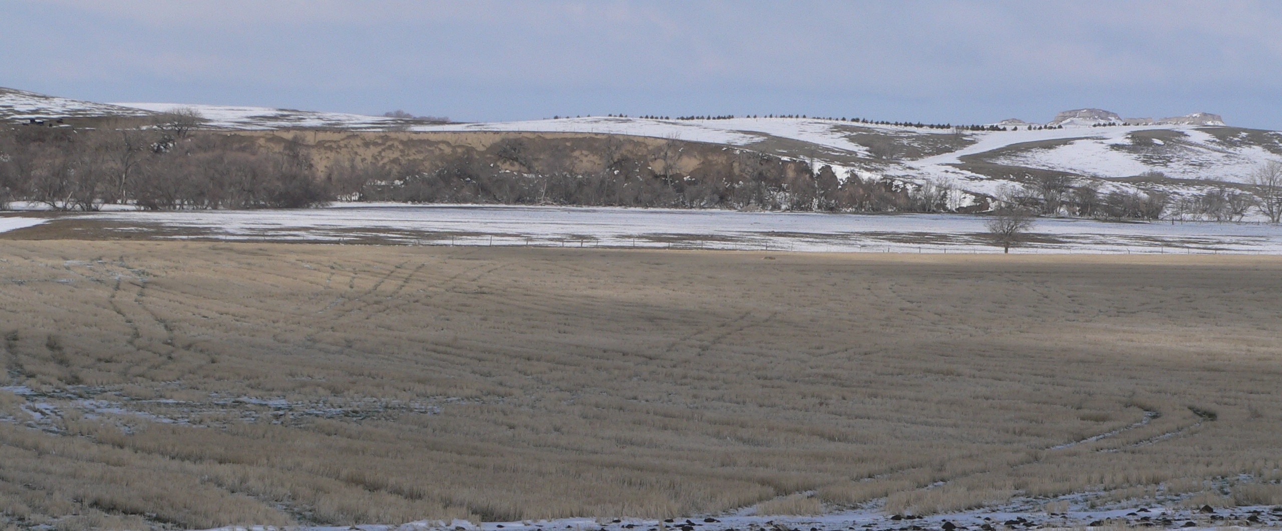 Site of Camp Sheridan, indicated by a sign on county road 473 Trl, 12.8 odometer miles north of Hay Springs, Nebraska. Camera is facing generally westward from the road.